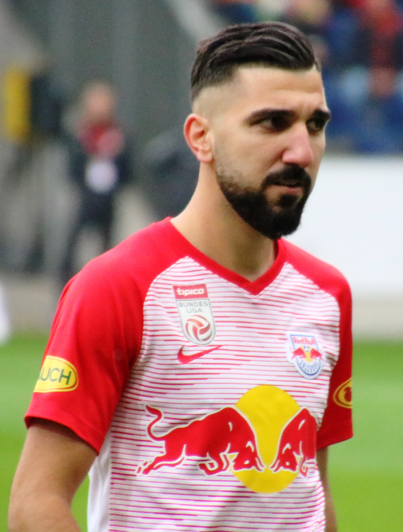 Austrian Bundeliga league match